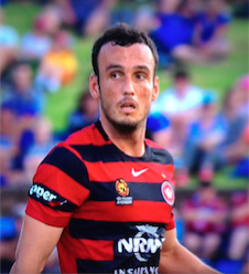 Mark Bridge playing against Newcastle Jets on 13 March 2016.